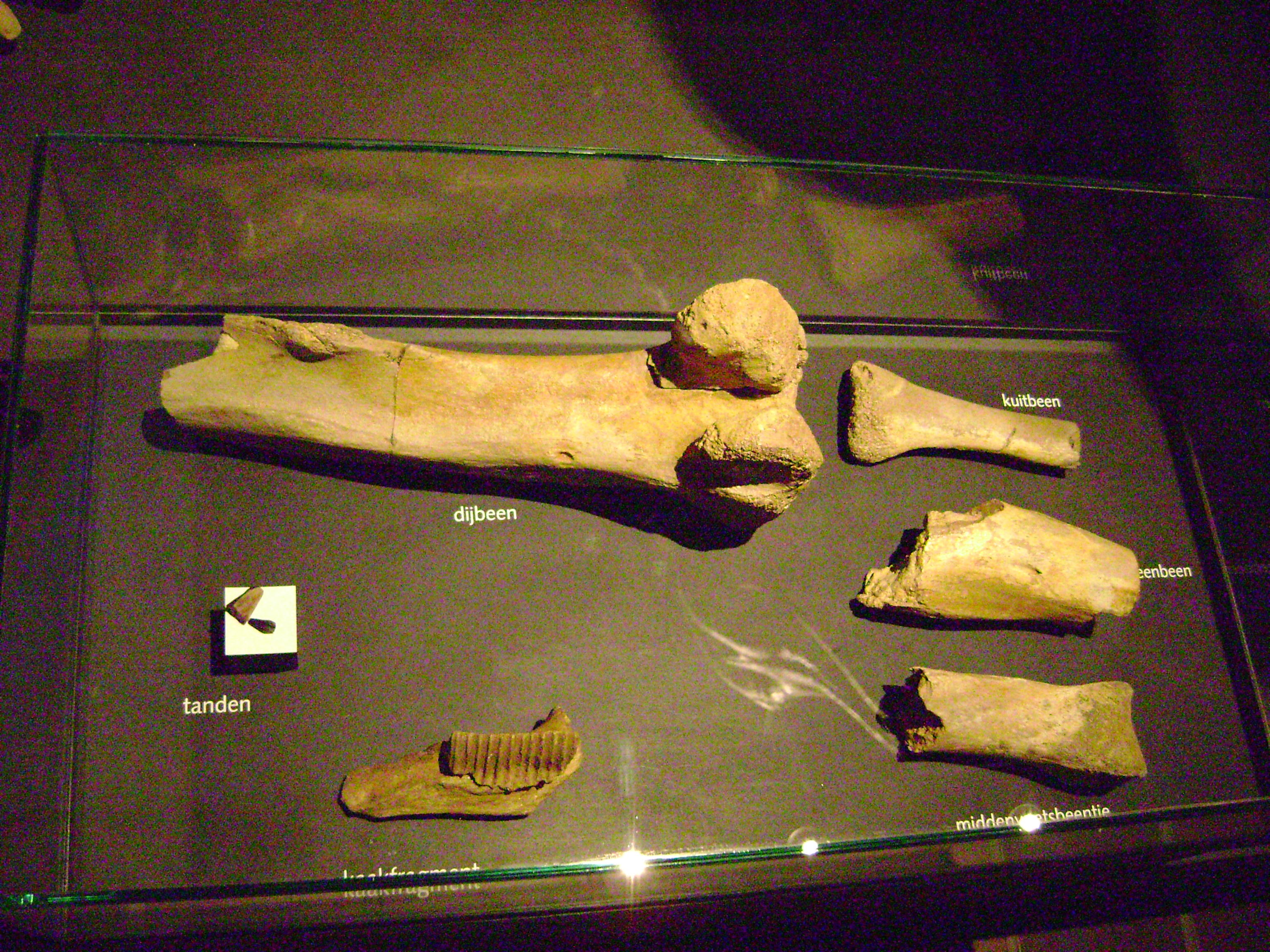 Fossil bones of Orthomerus in the Natural History Museum of Maastricht